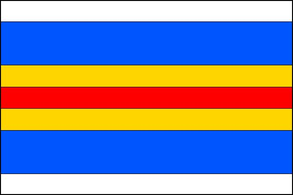 Ostrožská_Nová_Ves,_flag